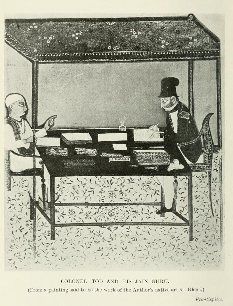 Photograph of painting of Lt. Col James Tod and Jain guru from, frontispiece, 1920 edition of his Annals and antiquities of Rajasthan, volume 3 edited by William Crooke, Oxford University Press, 1920 Uploaded by Fowler&fowler«Talk» 19:06, 12 August 2011 (UTC)